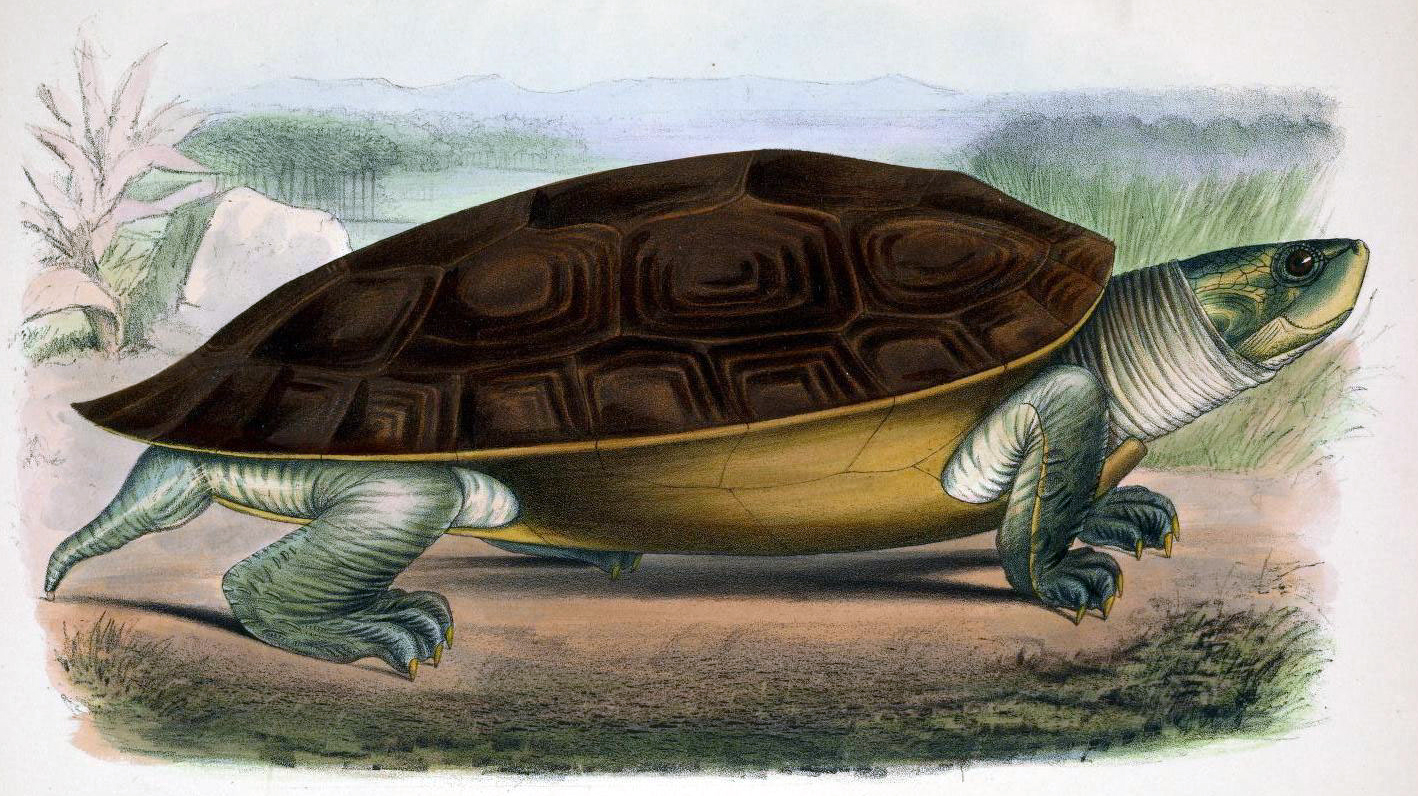 Northern river terrapin.